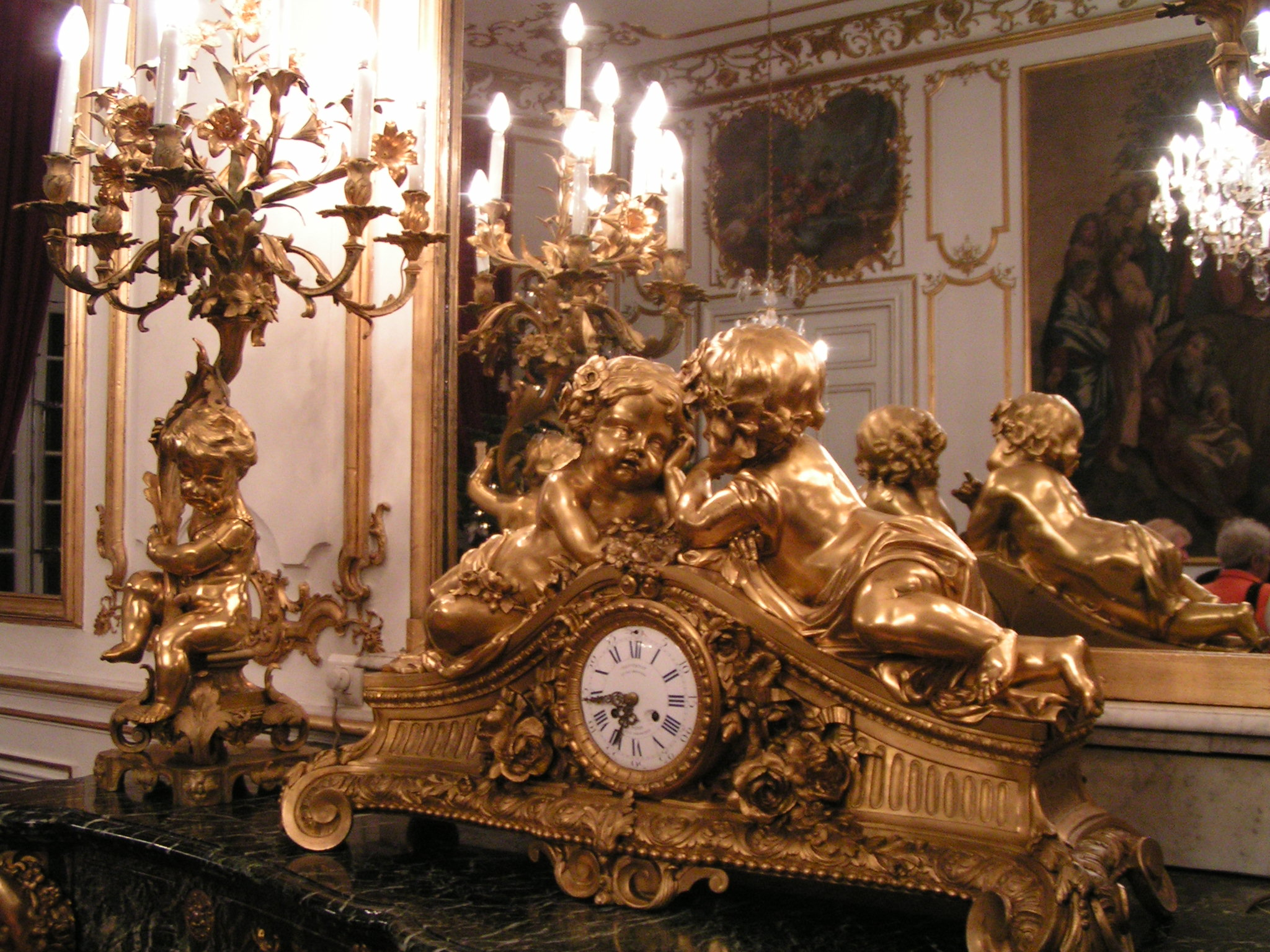 Reception room in Strasbourg Town Hall